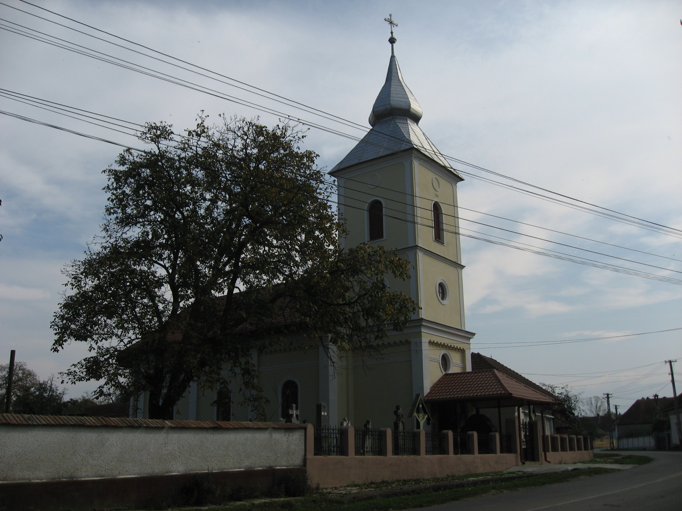 the orthodox church in Pojorta, community of Lisa, Braşov County it was built in the years 1904-1905, renovated 1946, byzantine paintings date from 1990-2001